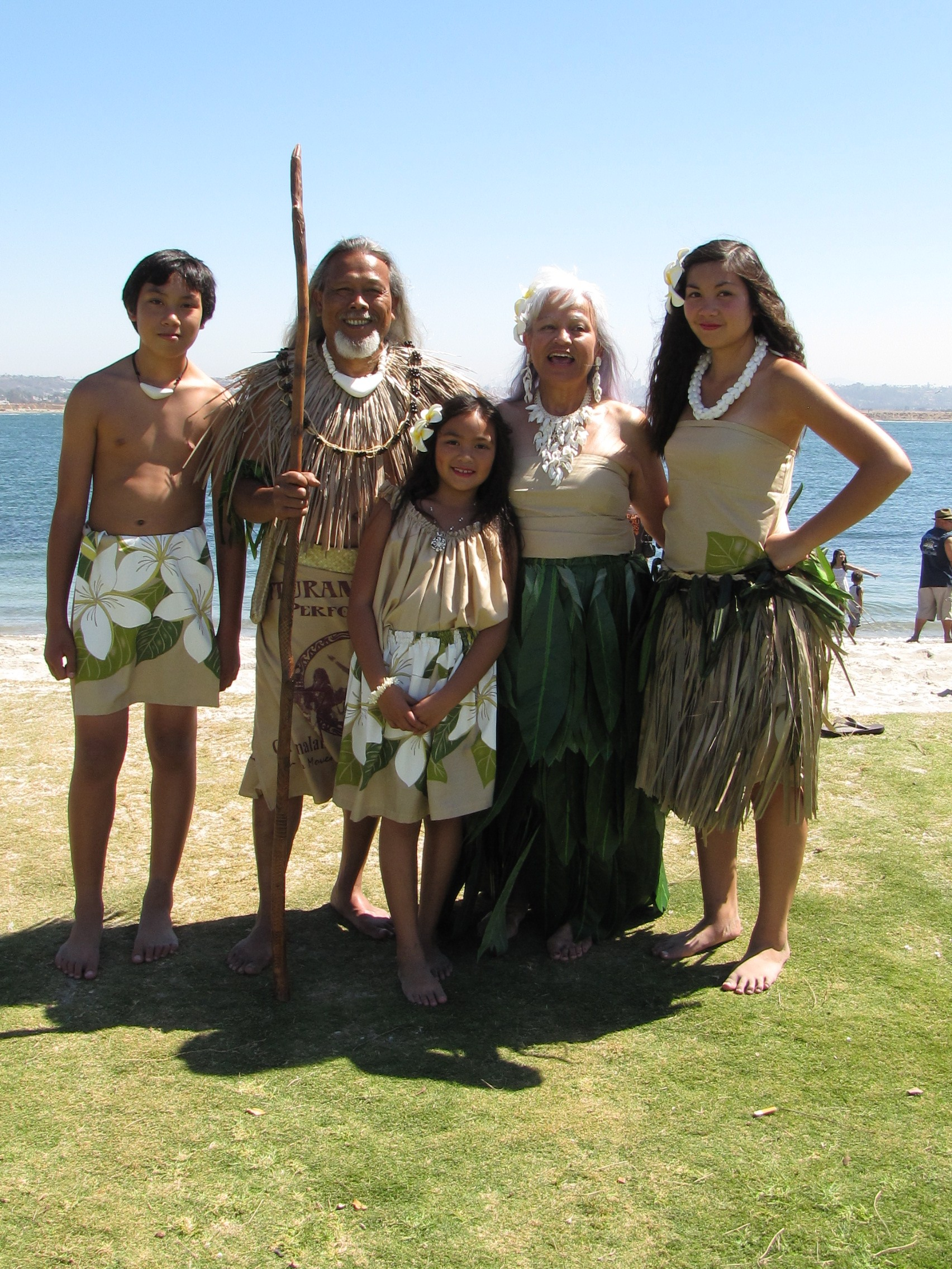 Kutturan Chamoru Performers (KCP) at the 2010 Pacific Islander Festival Association in San Diego.